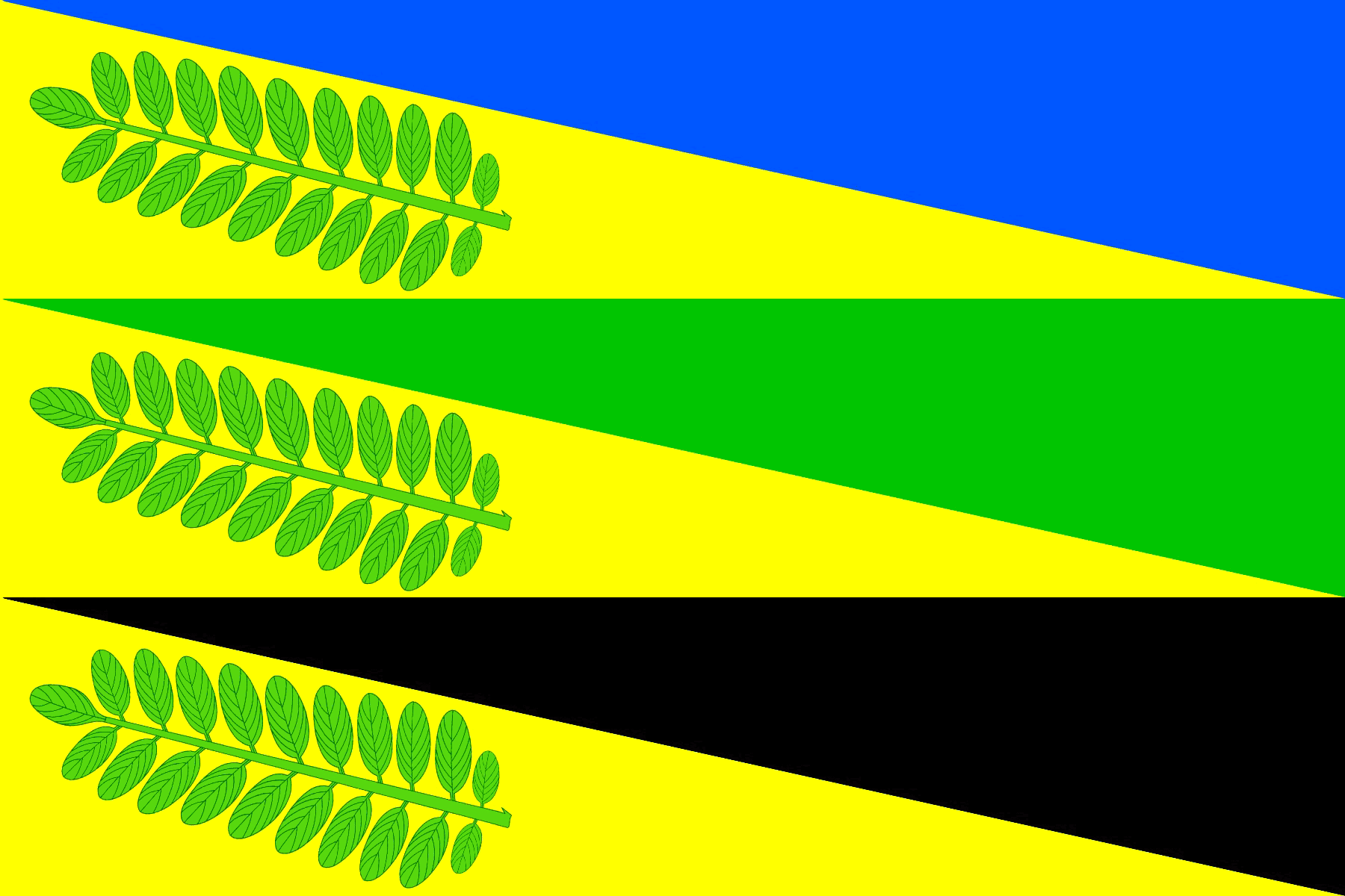 Flag of Aleksandrovskoe rural settlement, Krasnodar Territory, Russia